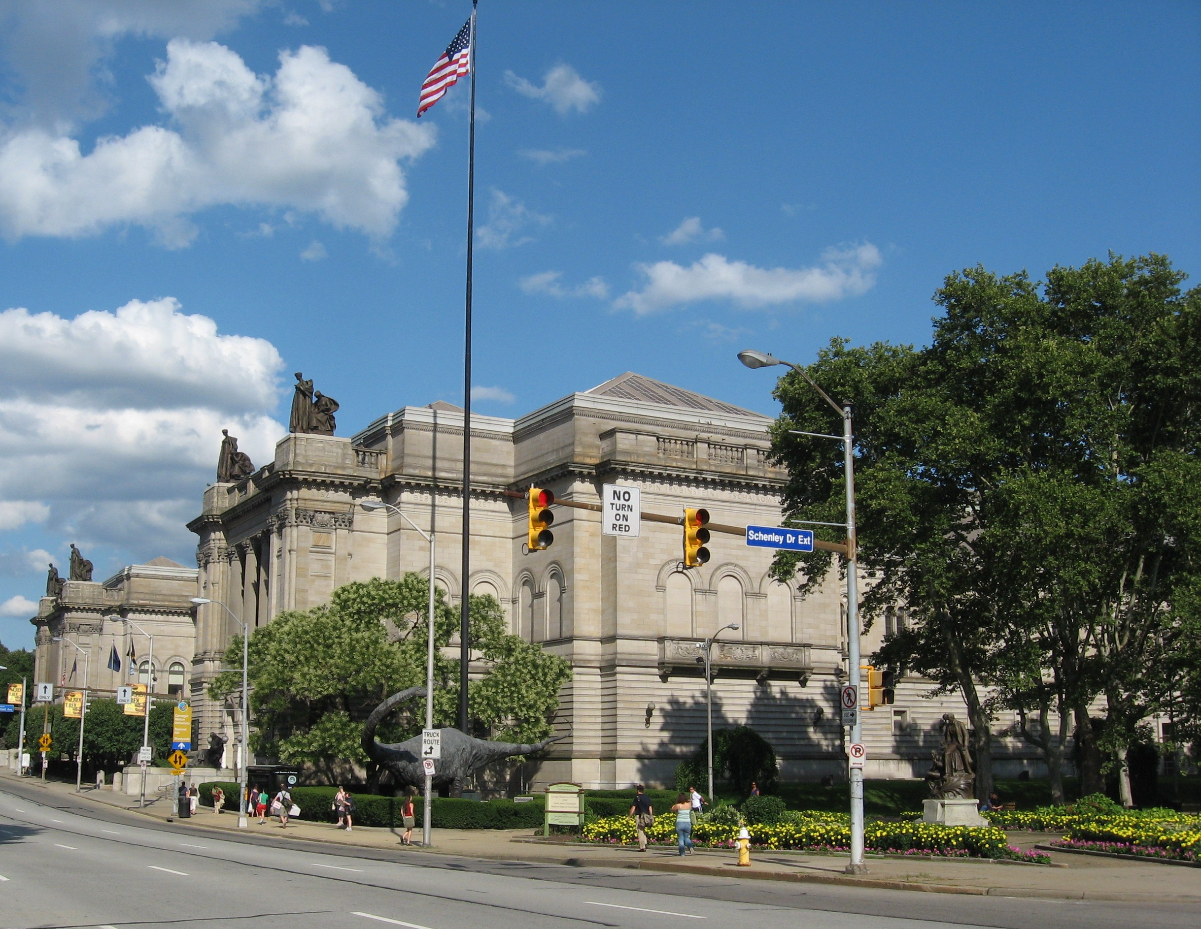 The Carnegie Music Hall at the Carnegie Museums of Pittsburgh in Pittsburgh